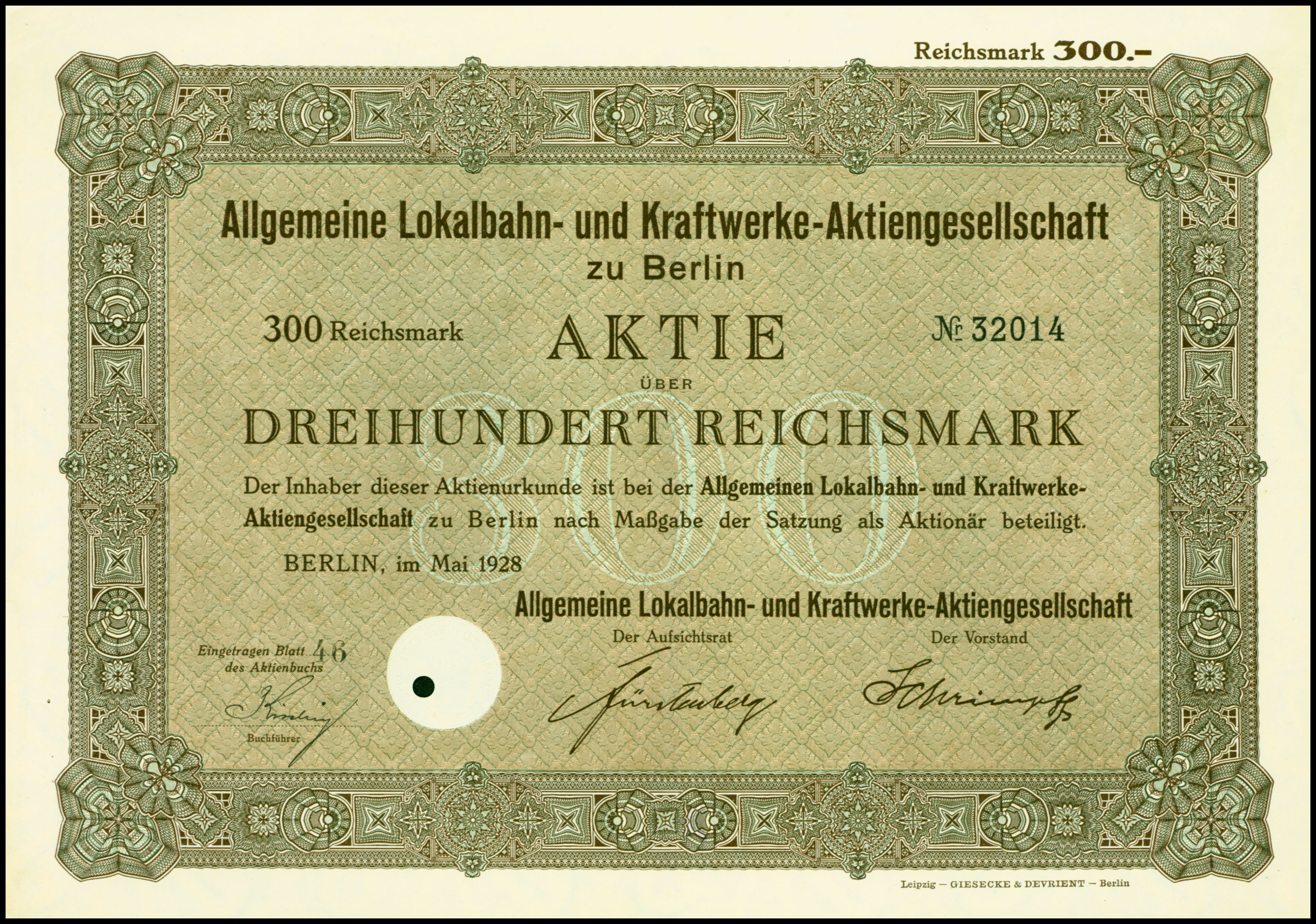 Share of the Allgemeine Lokalbahn- und Kraftwerke AG, issued May 1928